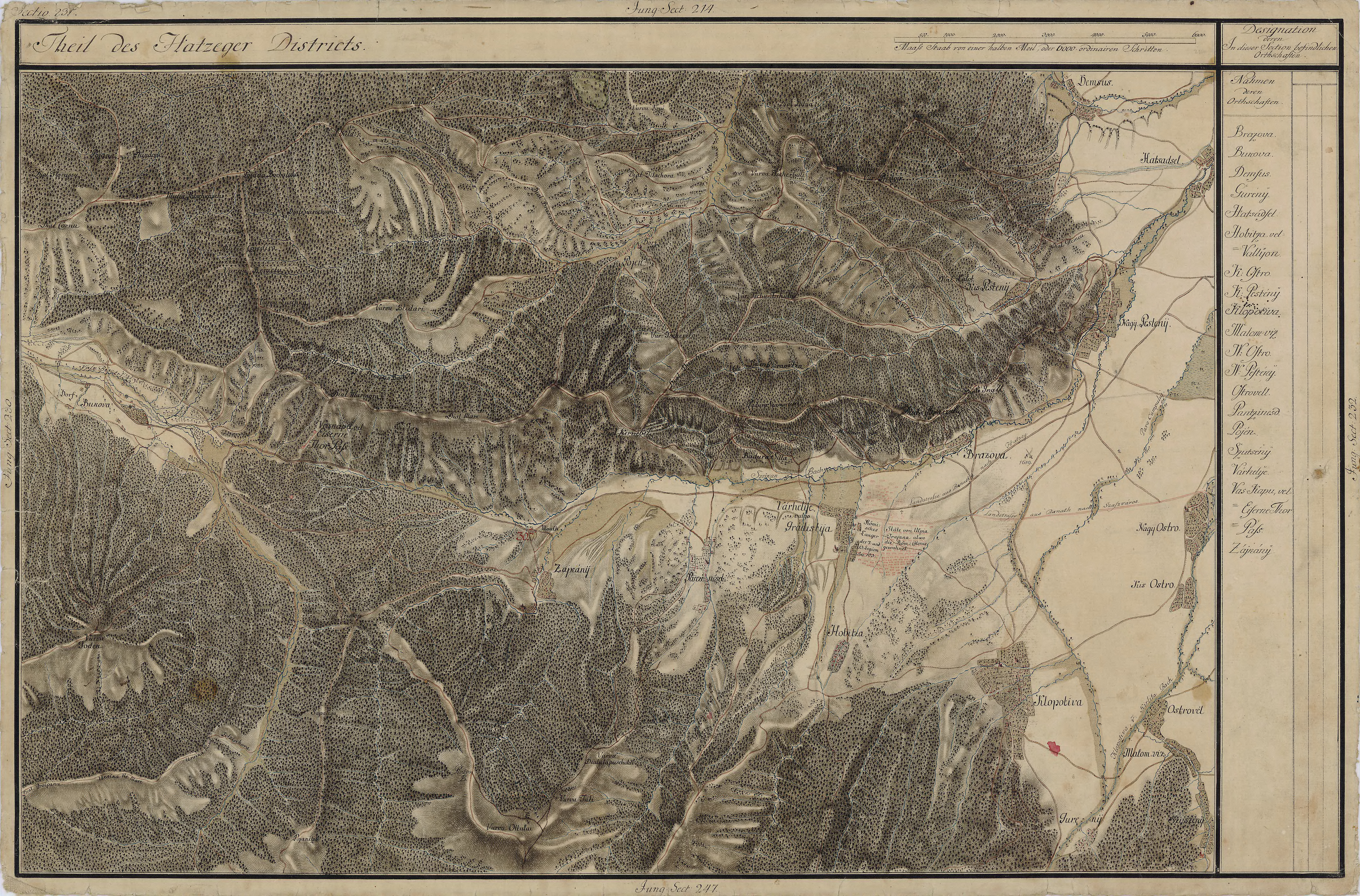 Grand Duchy of Transylvania, 1769-1773. Josephinische Landaufnahme pg.231